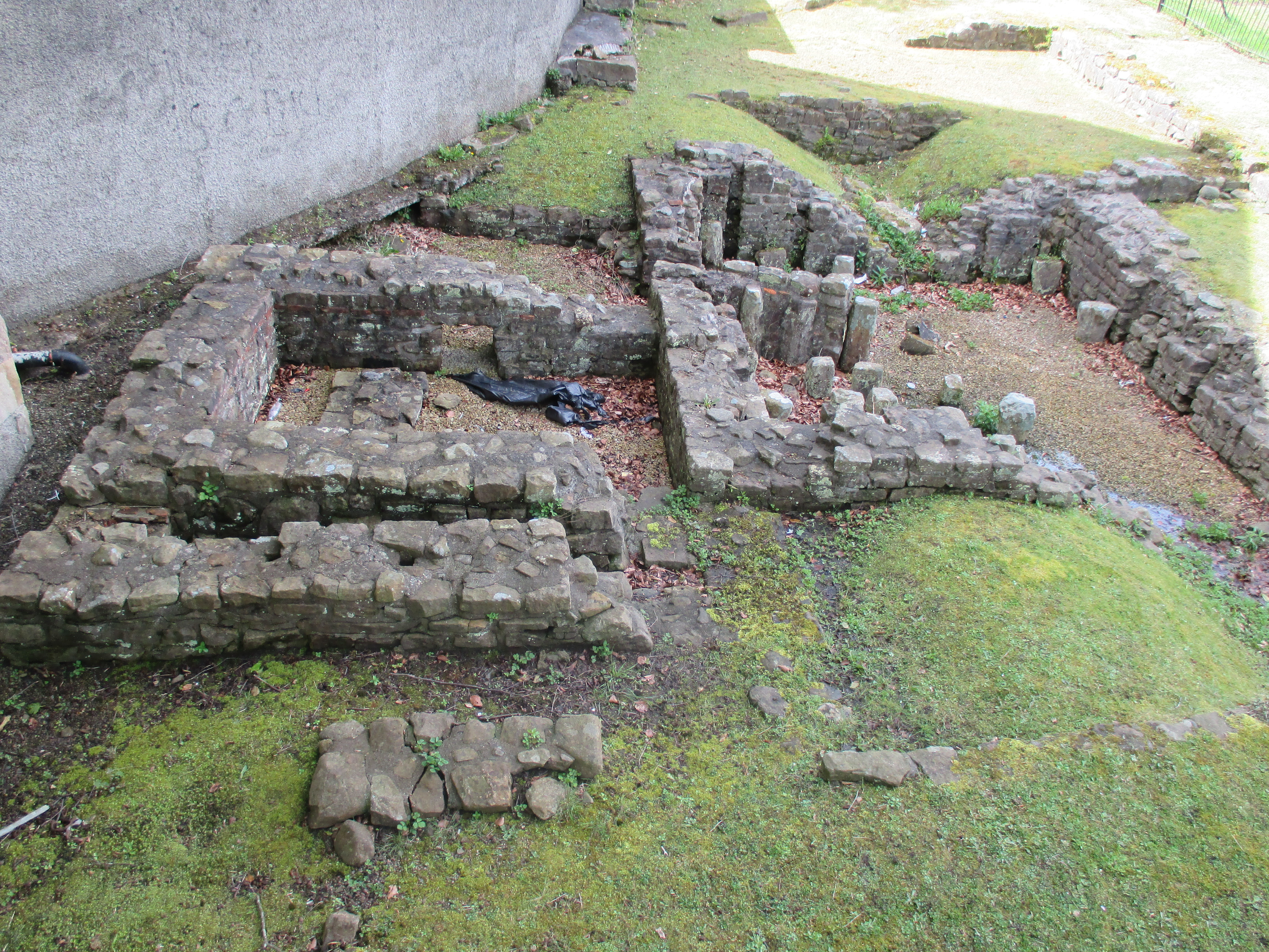 The Roman bath house on Castle Hill, Lancaster, Lancashire.